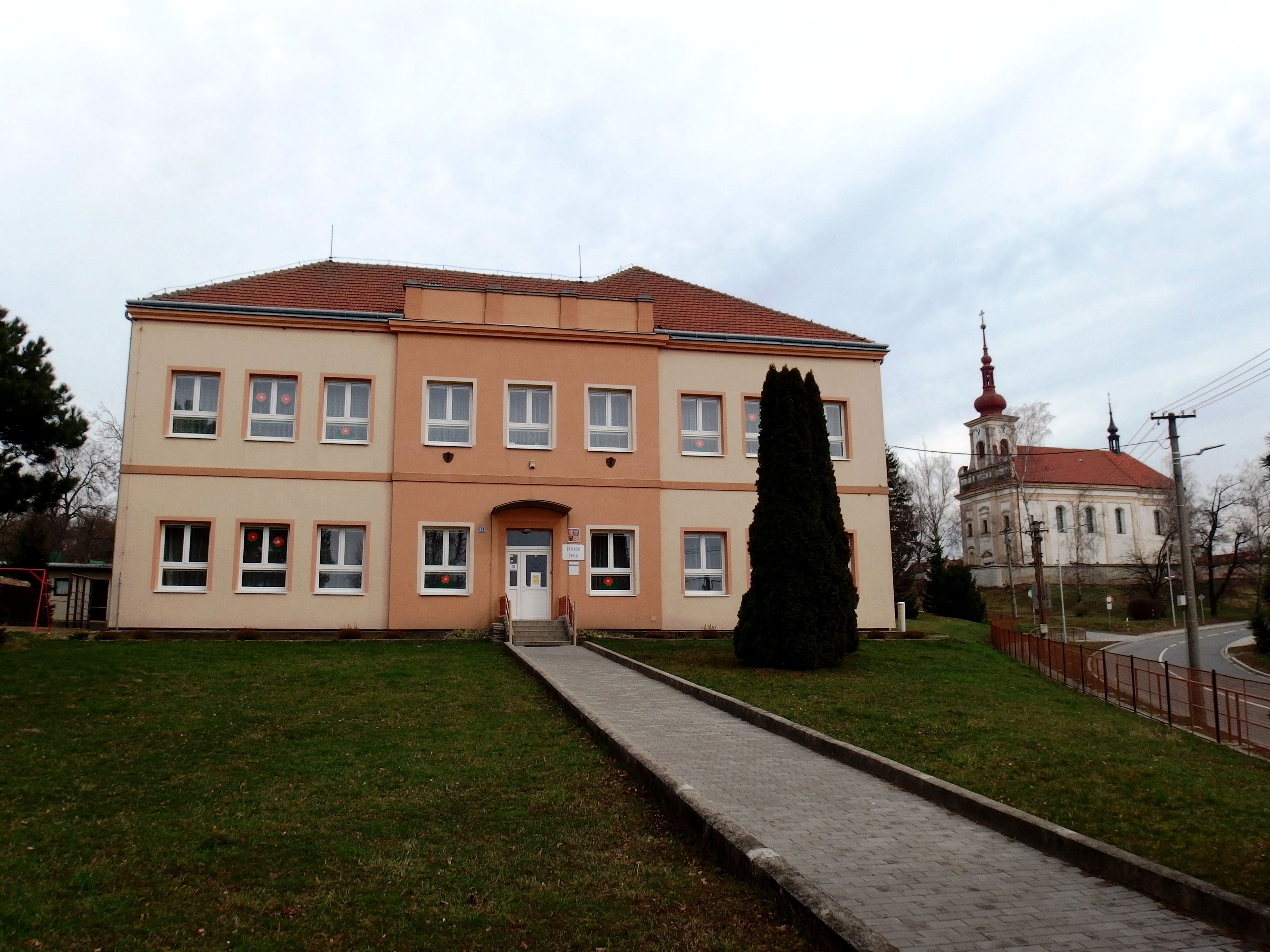 Počenice-Tetětice, Kroměříž District, Czech Republic, part Počenice.